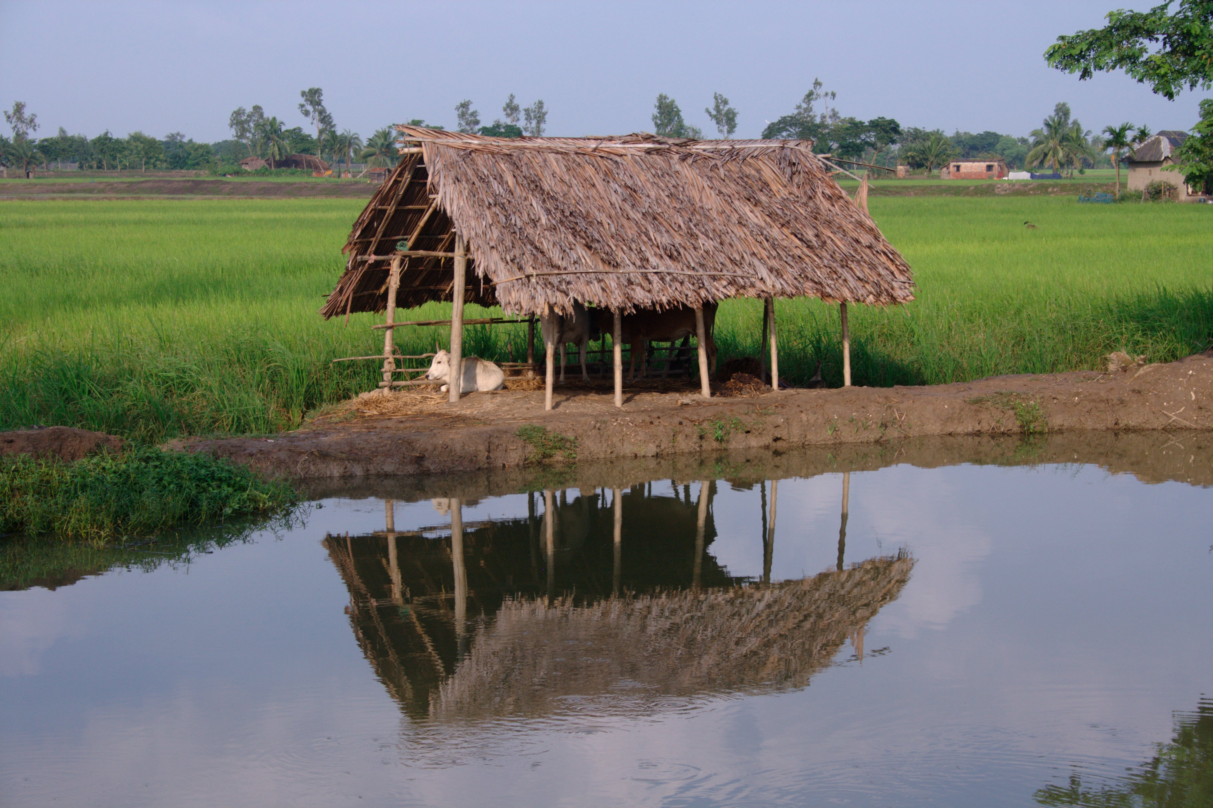 A cattle shed on an island in the ganges delta, sunderban area, India.